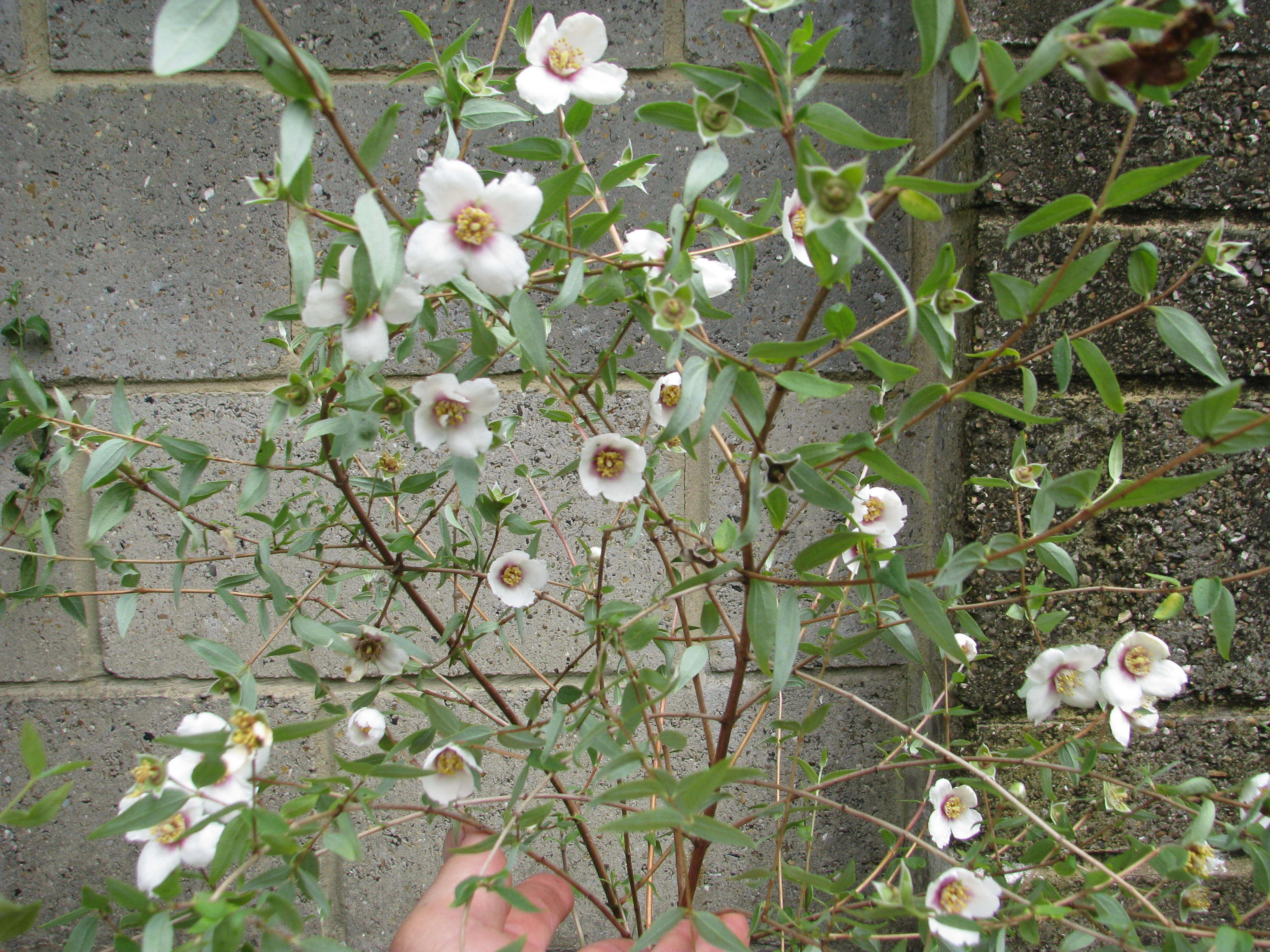 Fab scent. The only down side is the low trailing habit so the flowers lie on the ground. I'll have to either grow it on a raised bed or train it against a wall. Also from Kevin Hughes